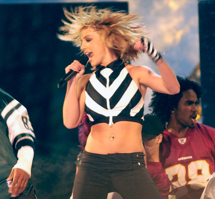 Recording Artist Britney Spears performs on the National Mall during the Operation Tribute to Freedom, NFL and Pepsi sponsored “NFL Kickoff Live 2003” Concert. Organizers provided priority seating for military members and their families. Among the other performers were Aerosmith, Mary J. Blige, Aretha Franklin, and Good Charlotte. Operation Tribute to Freedom (OTF) was set up by the Department of Defense as a way for Americans to show their appreciation to our men and women in uniform.